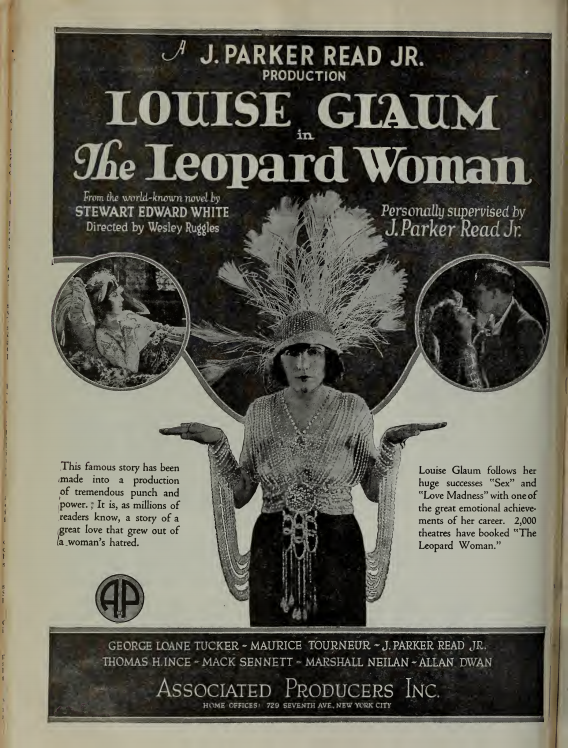 Louise Glaum in the film The Leopard Woman (1920), directed by Wesley Ruggles.